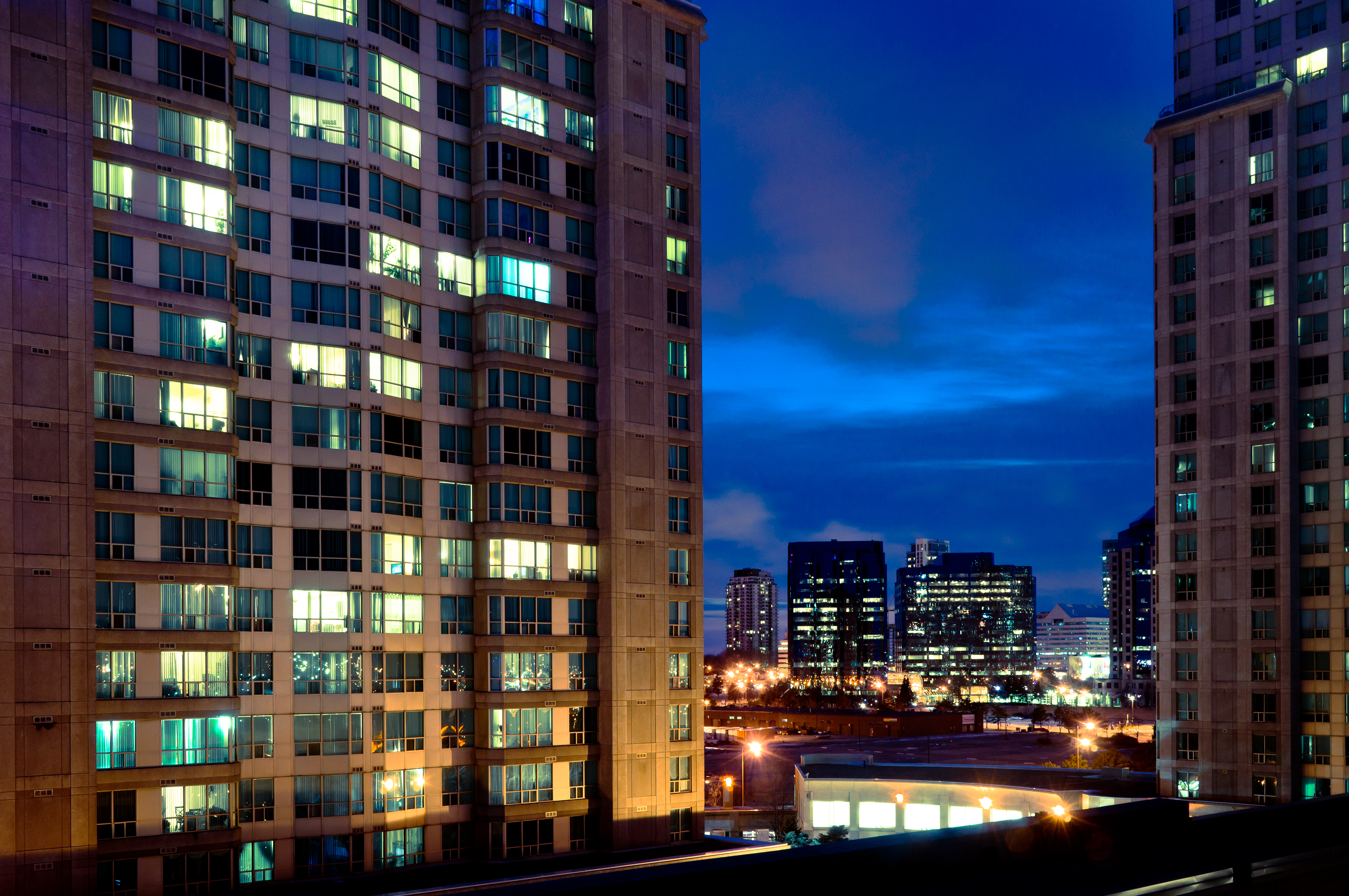 Buildings in Scarborough (mostly condominium buildings) Scarborough, Ontario